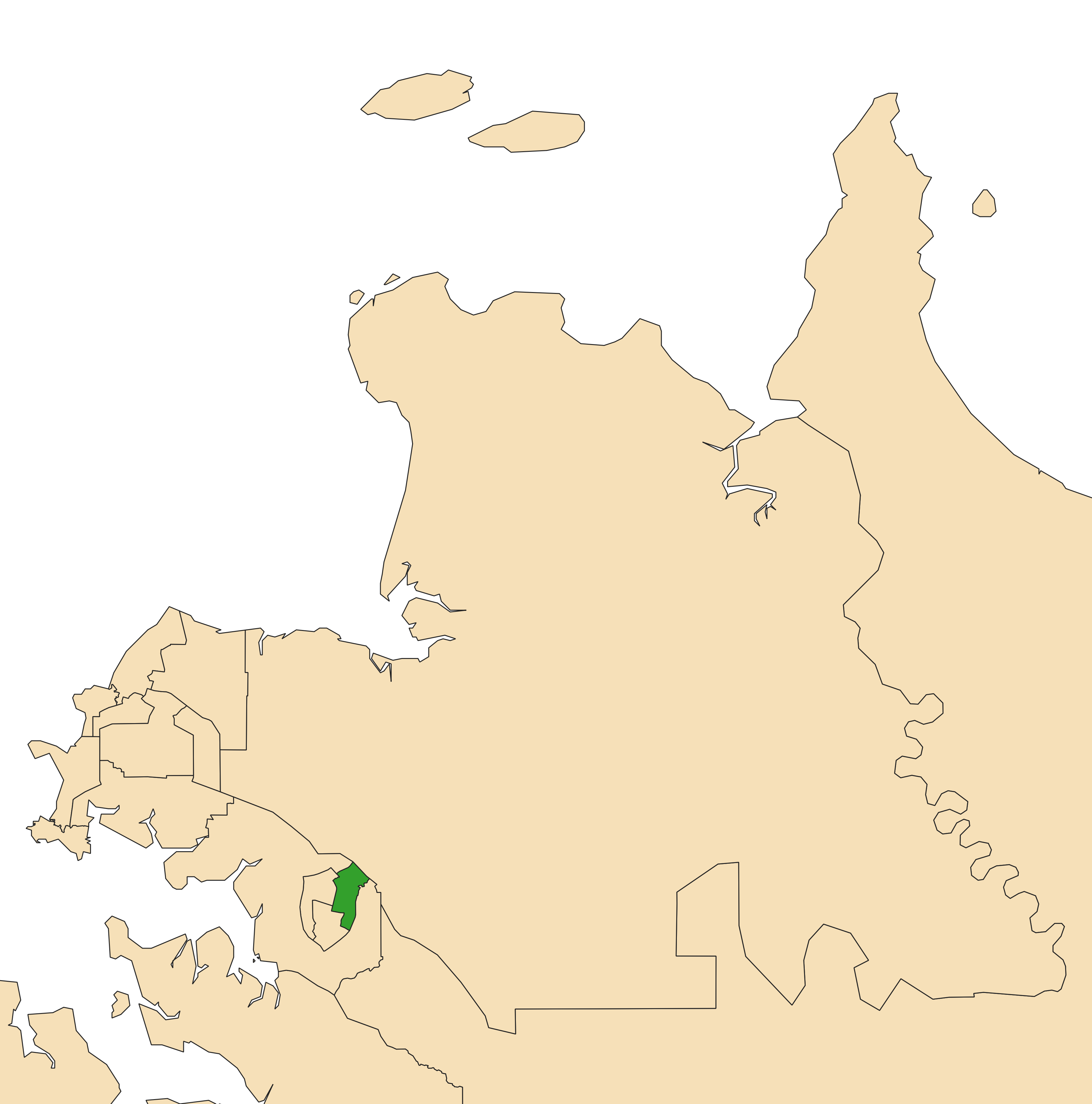 Location of the electoral division of Brennan (dark green) in the Darwin/Palmerston area of the Northern Territory at the 2020 Northern Territory election